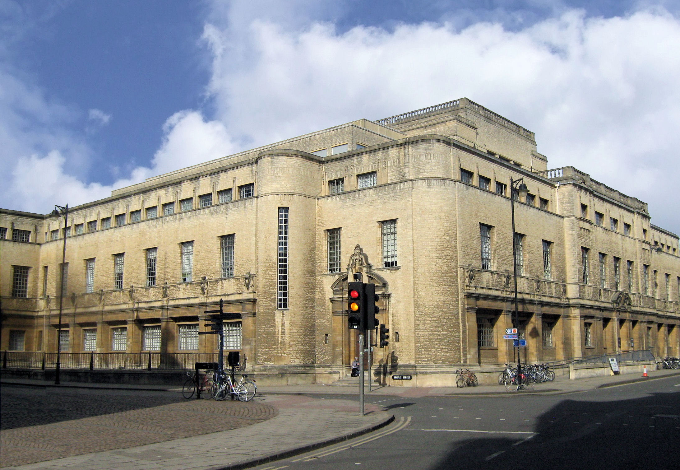 The New Bodleian Library in March 2009 before a major refurbishment which started in early 20011.